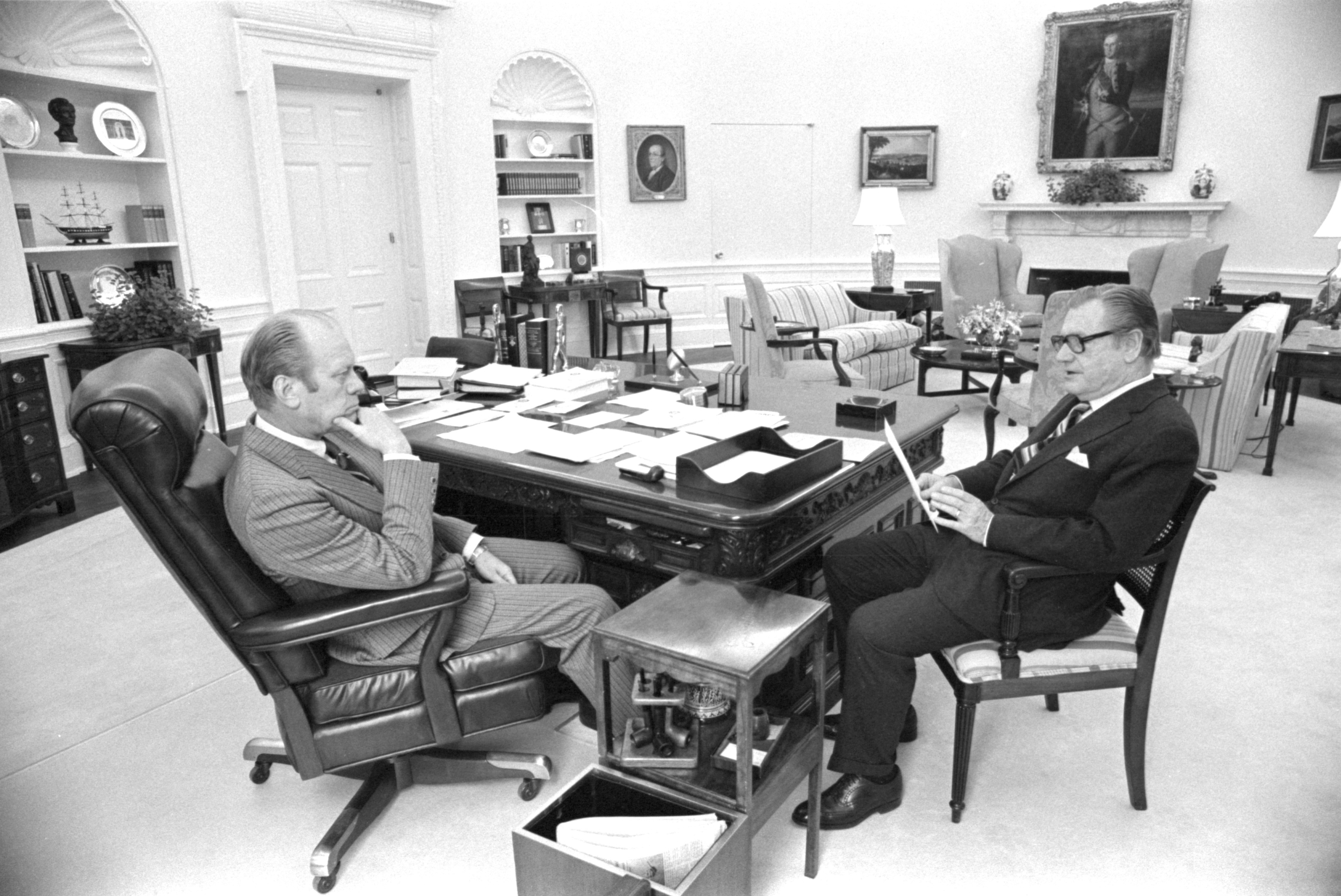 Vice President Nelson Rockefeller meets with President Gerald Ford in the Oval Office, March 12, 1975.